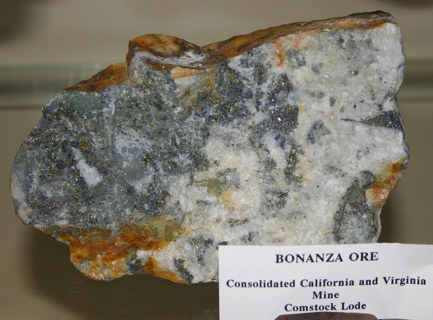 Source: Chris Ralph. This photo taken by Chris Ralph of [1], Photographer and author: photo taken by author.